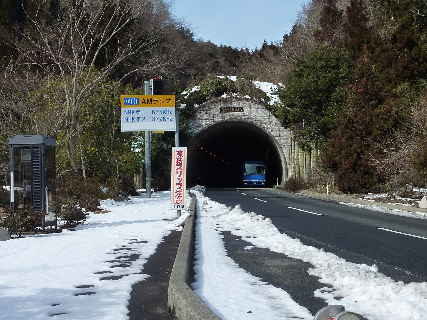 The National Route 435 - Mt Houbenzan Tunnel (Yamaguchi City, Yamaguchi Prefecture, Japan.